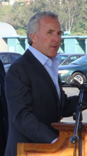 Former Dodgers owner Frank McCourt